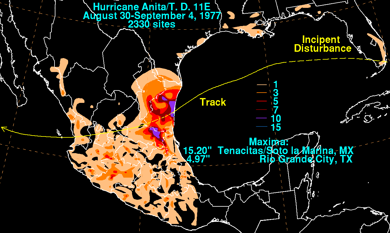 Rainfall produced by Hurricane Anita/Tropical Depression 11-E during August and September 1977.